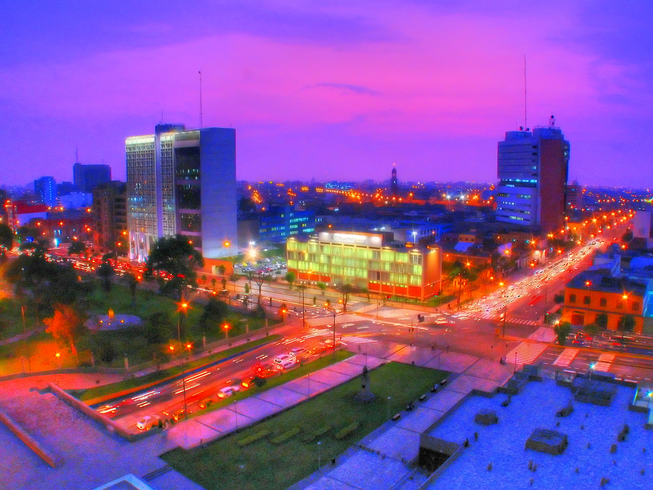 A bit noisy, but not too bad. Don't let the colors fool you. Lima is almost 100% grey and dul from end to end. HDR composed in Photomatix from 5 pics.